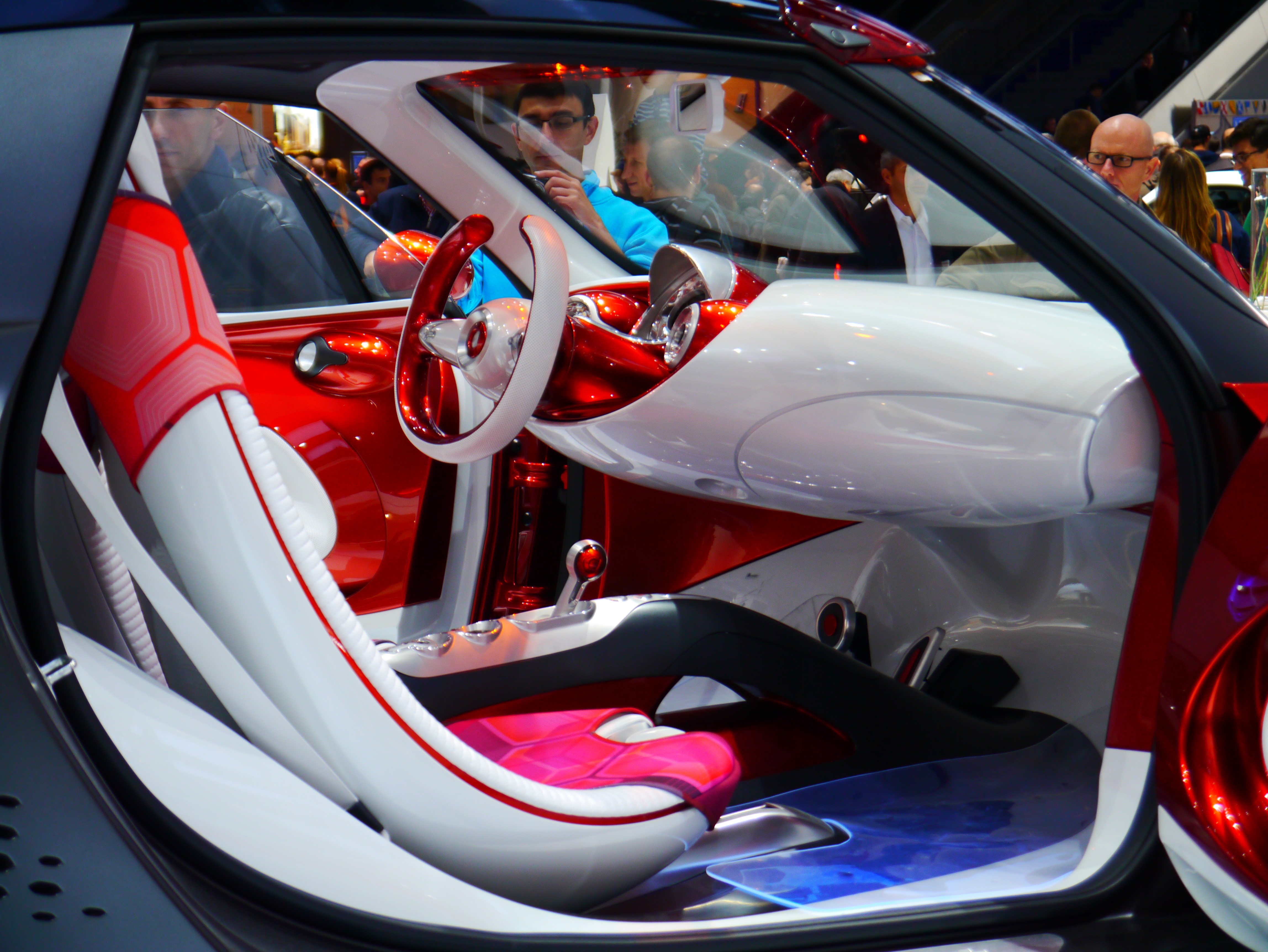 Smart Forstars concept - plug-in electric vehicle. The Forstars name is a reference to both the glass roof that allows for stargazing and the projector (embedded in the bonnet) that can be used for watching film stars.